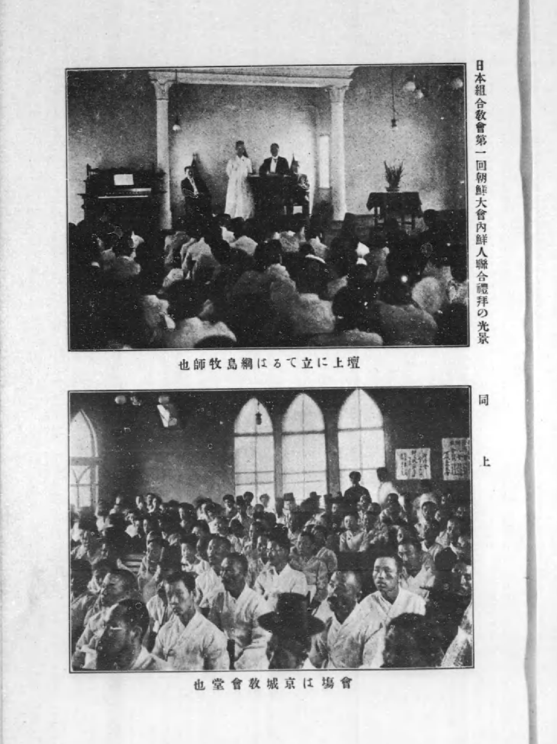 Japan Kumiai Church and Korean.